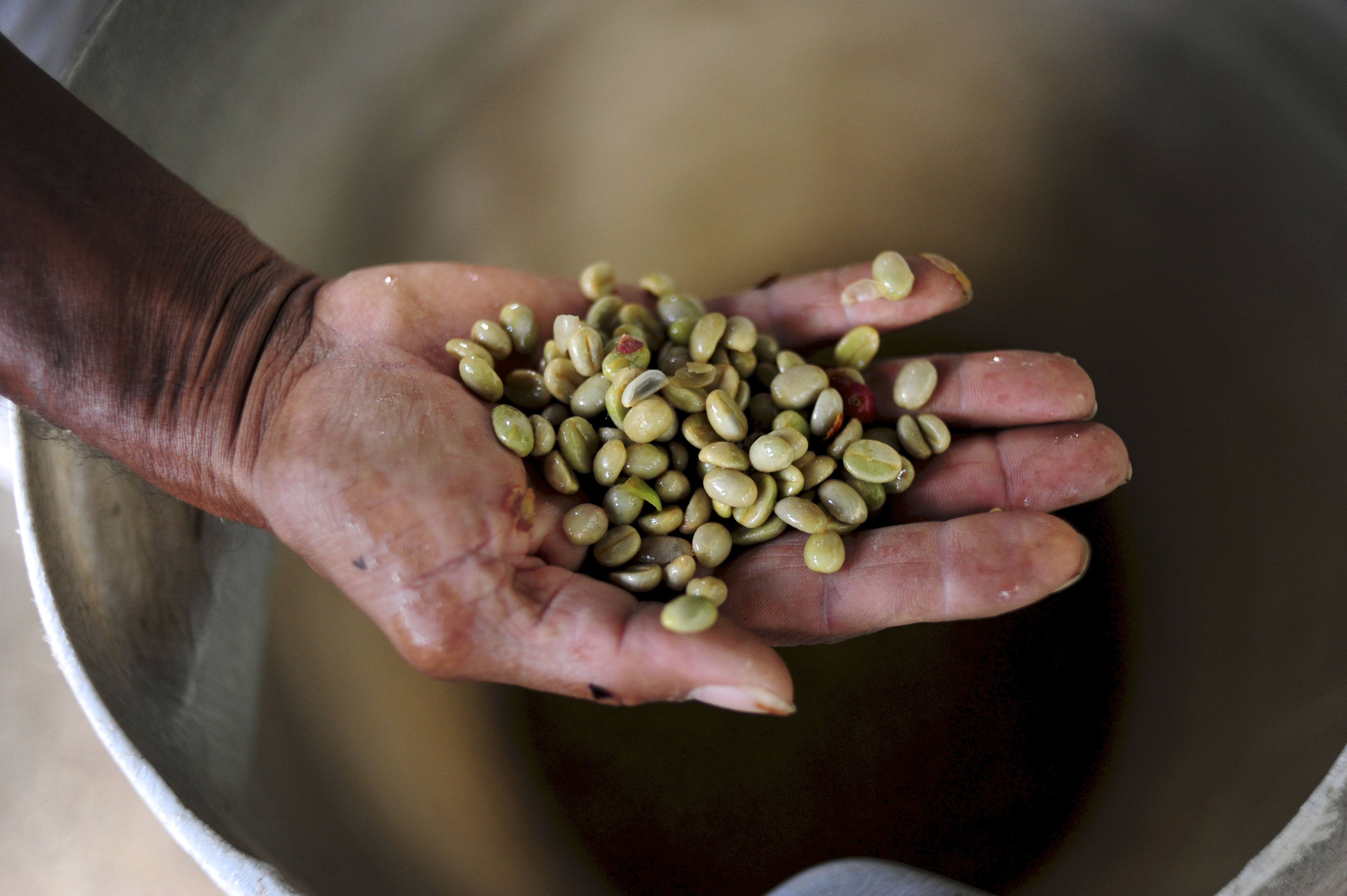 Pic by Neil Palmer (CIAT). Dehusked coffee beans at a farm in Cauca, southwestern Colombia. From the Two Degrees Up series of case studies on the effect of climate change on agriculture.